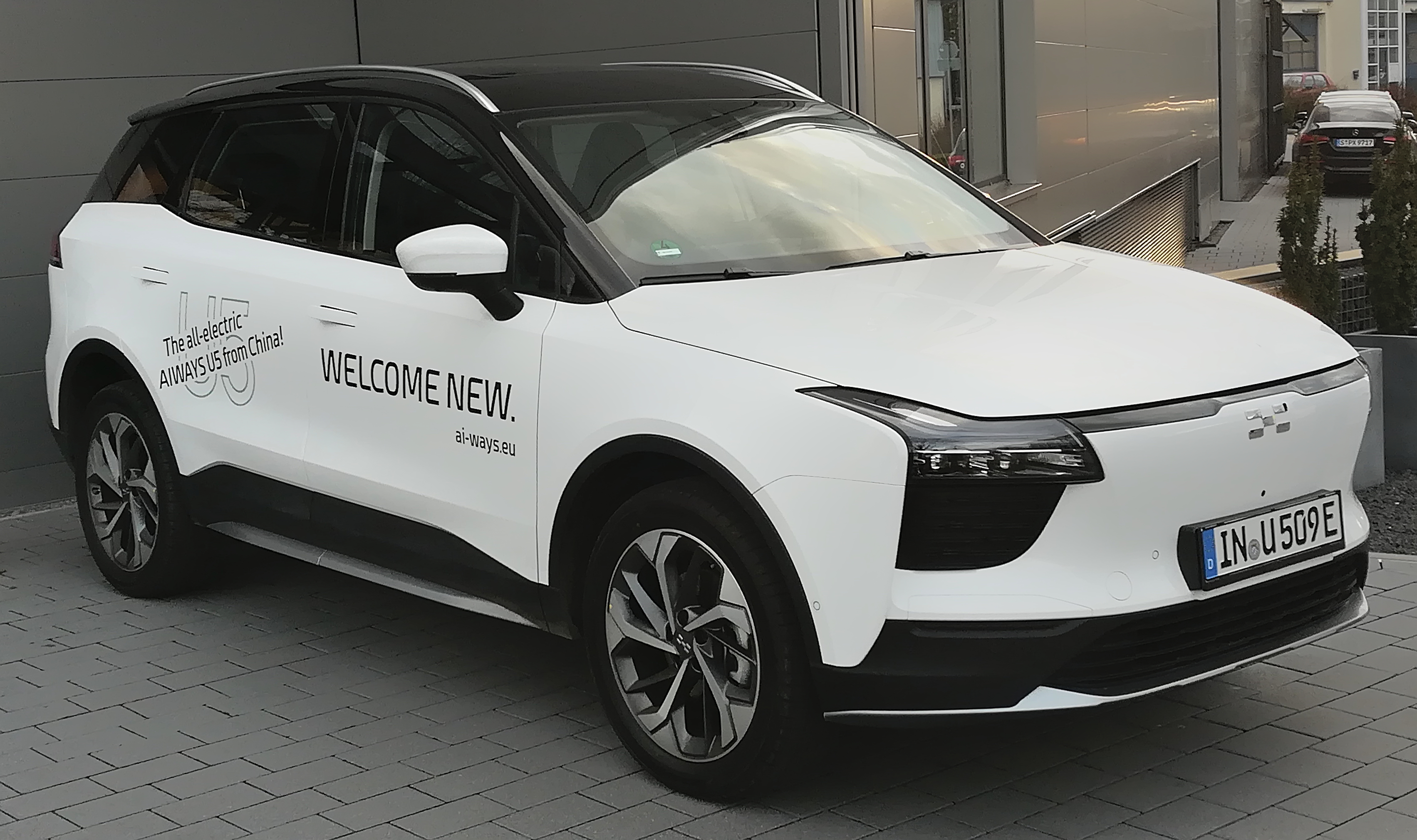 Aiways_U5 in Leonberg